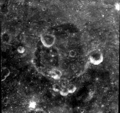 Strömgren lunar crater - Clementine image.